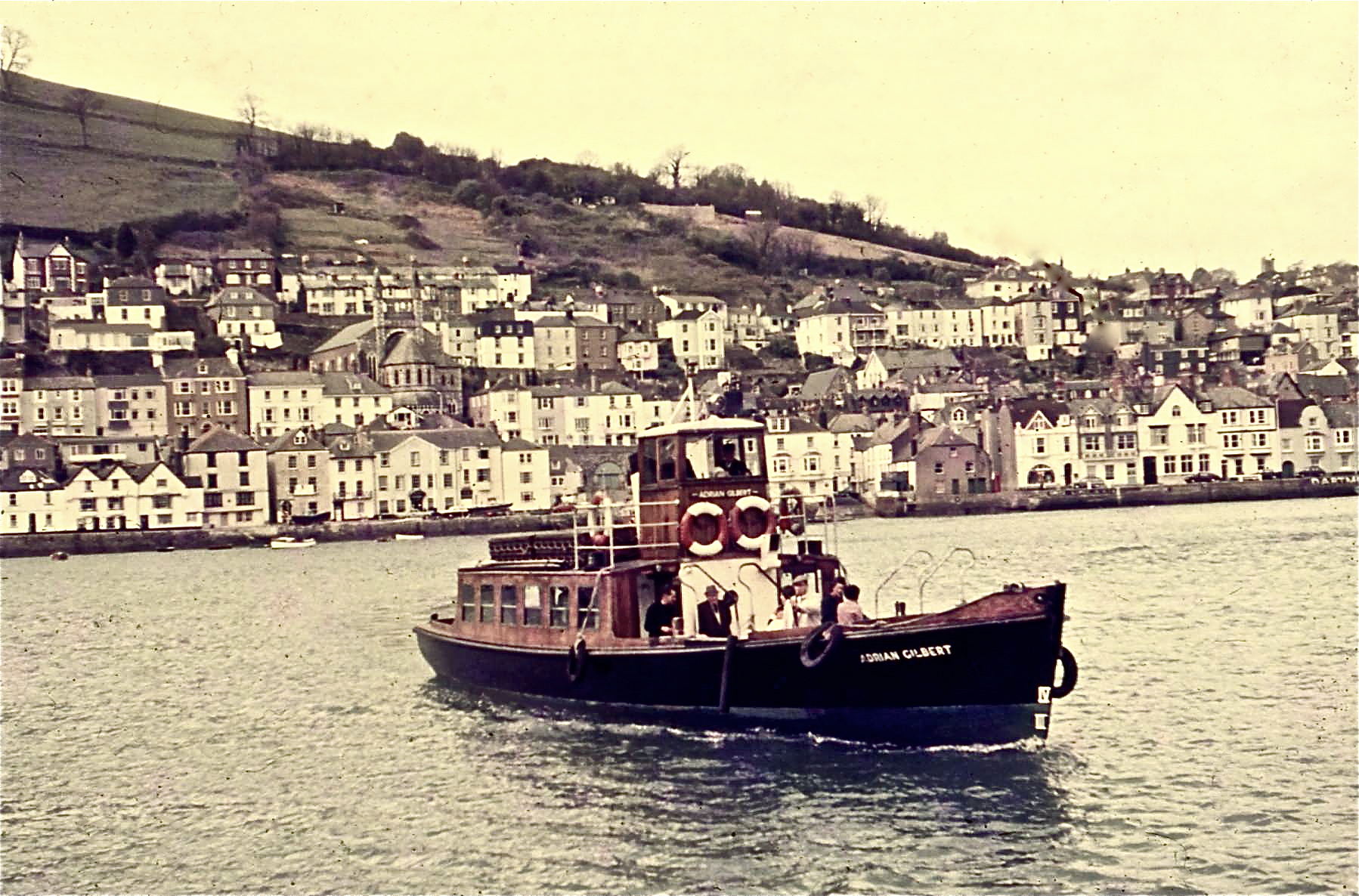 1972 on Kingswear-Dartmouth ferry